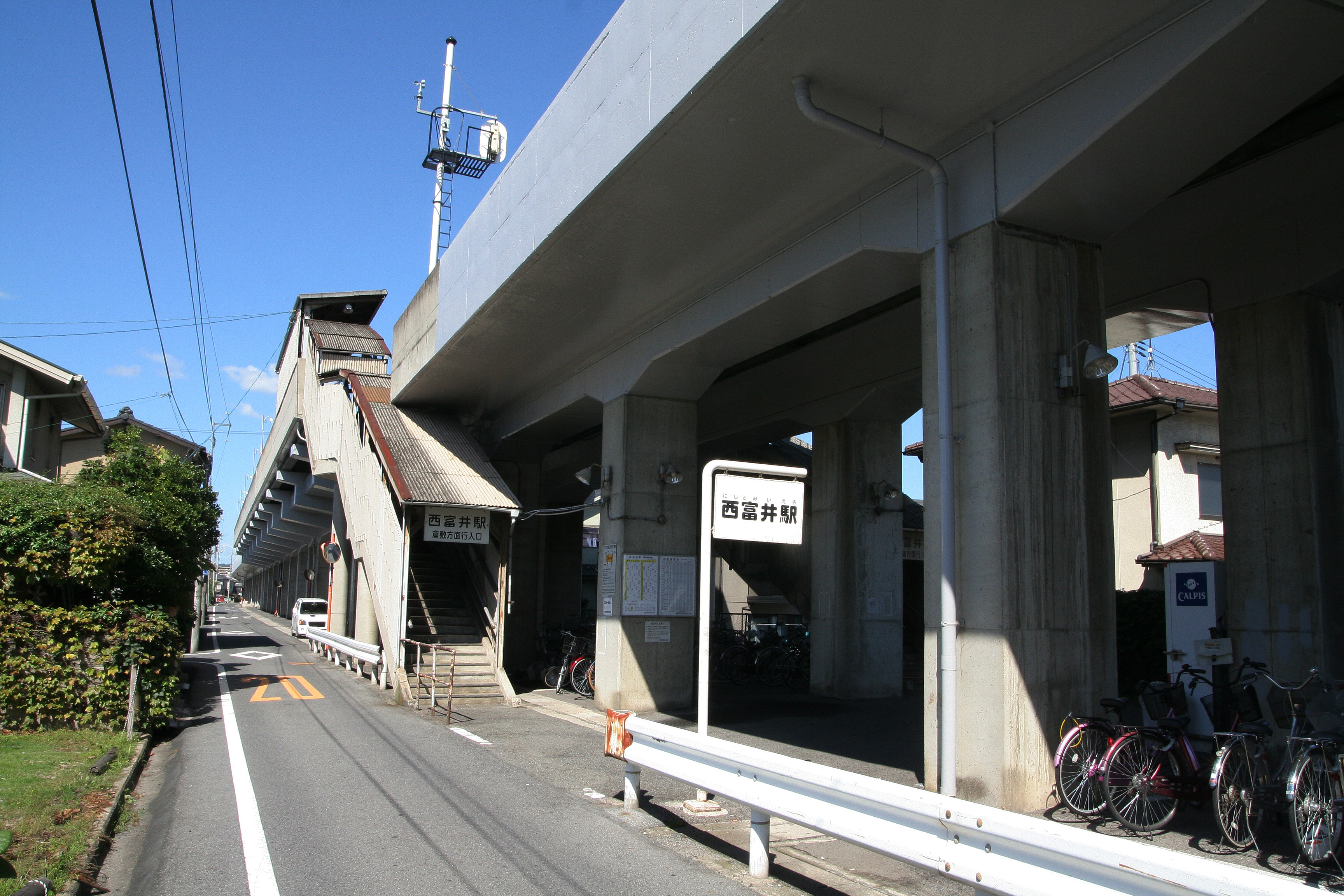 Mizushima Rinkai Railway Mizushima Main Line Nishi-tomii Station